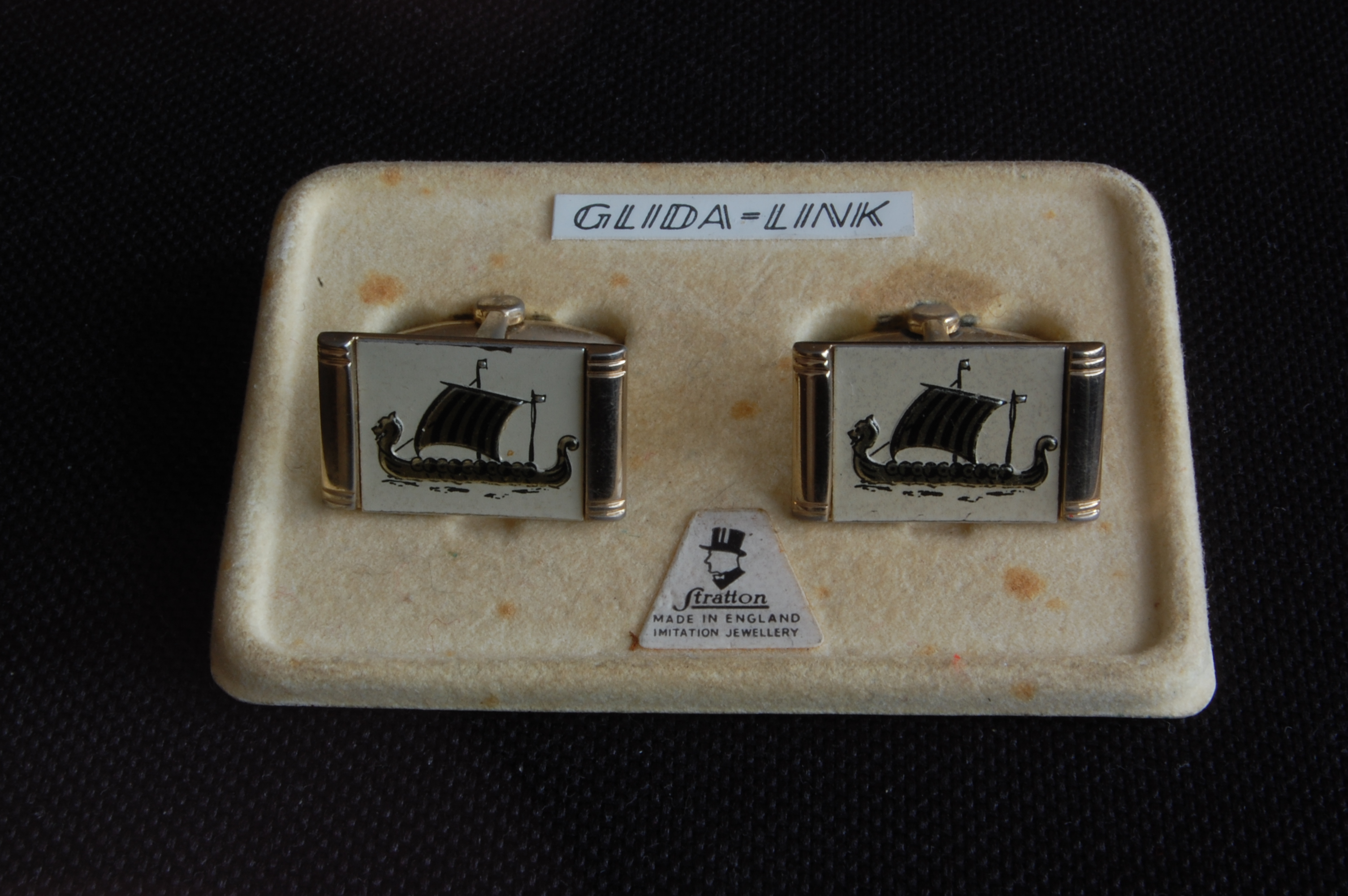 Pair of 'glida-link' cufflinks, depicting a Viking longboat, made by Stratton of Birmingham, England, and displayed on their original tray (the original box having been lost). The lower label reads "Stratton - Made in England - Imitation jewellery", with the company name italicised and the rest in upper case.